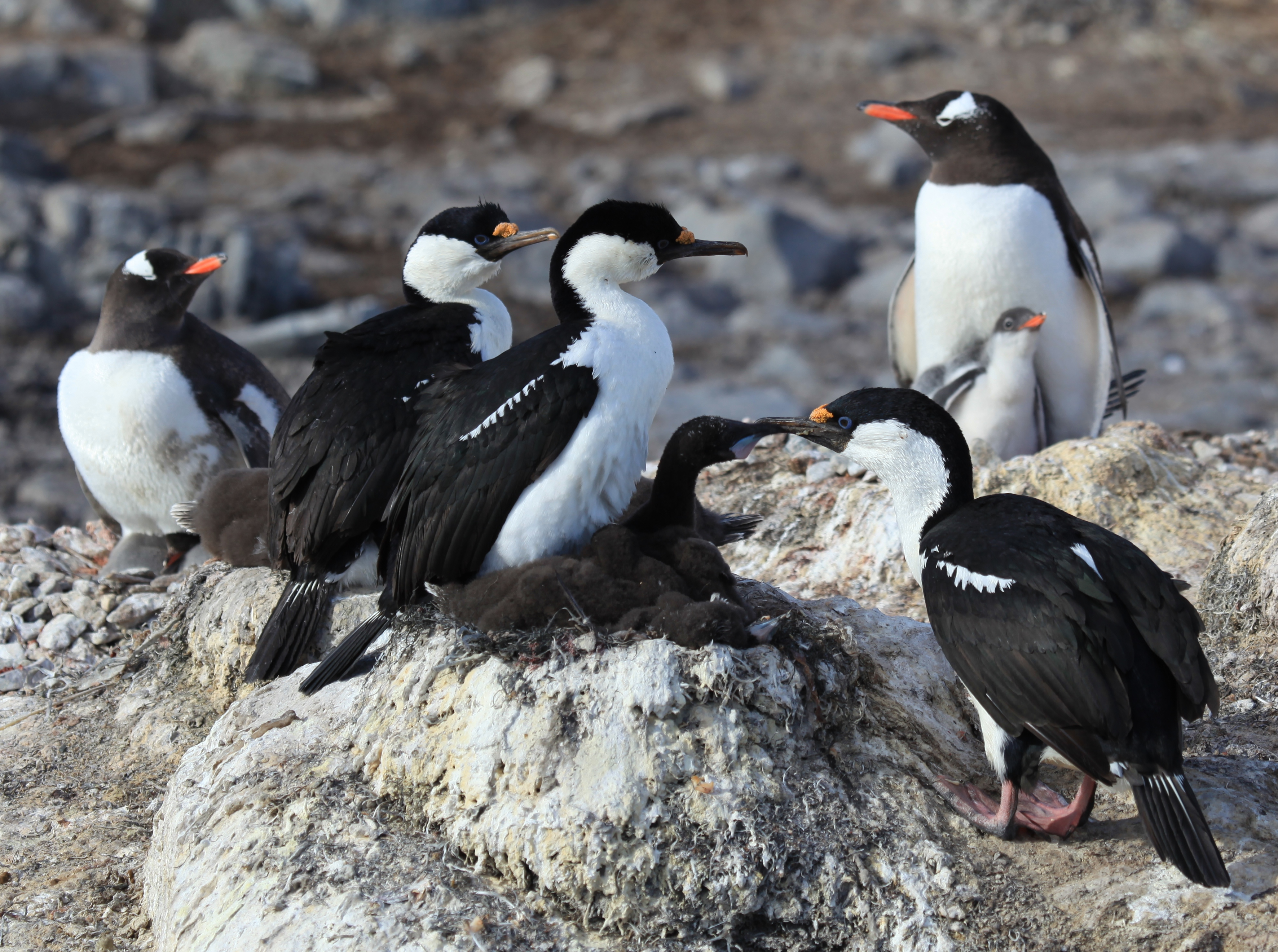 Antarctic Shags at Jougla Point, Antarctica